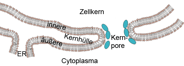 Nuclear membrane